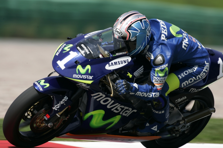 Dani Pedrosa, riding his 250cc Telefónica Movistar Honda at the 2005 German Grand Prix.